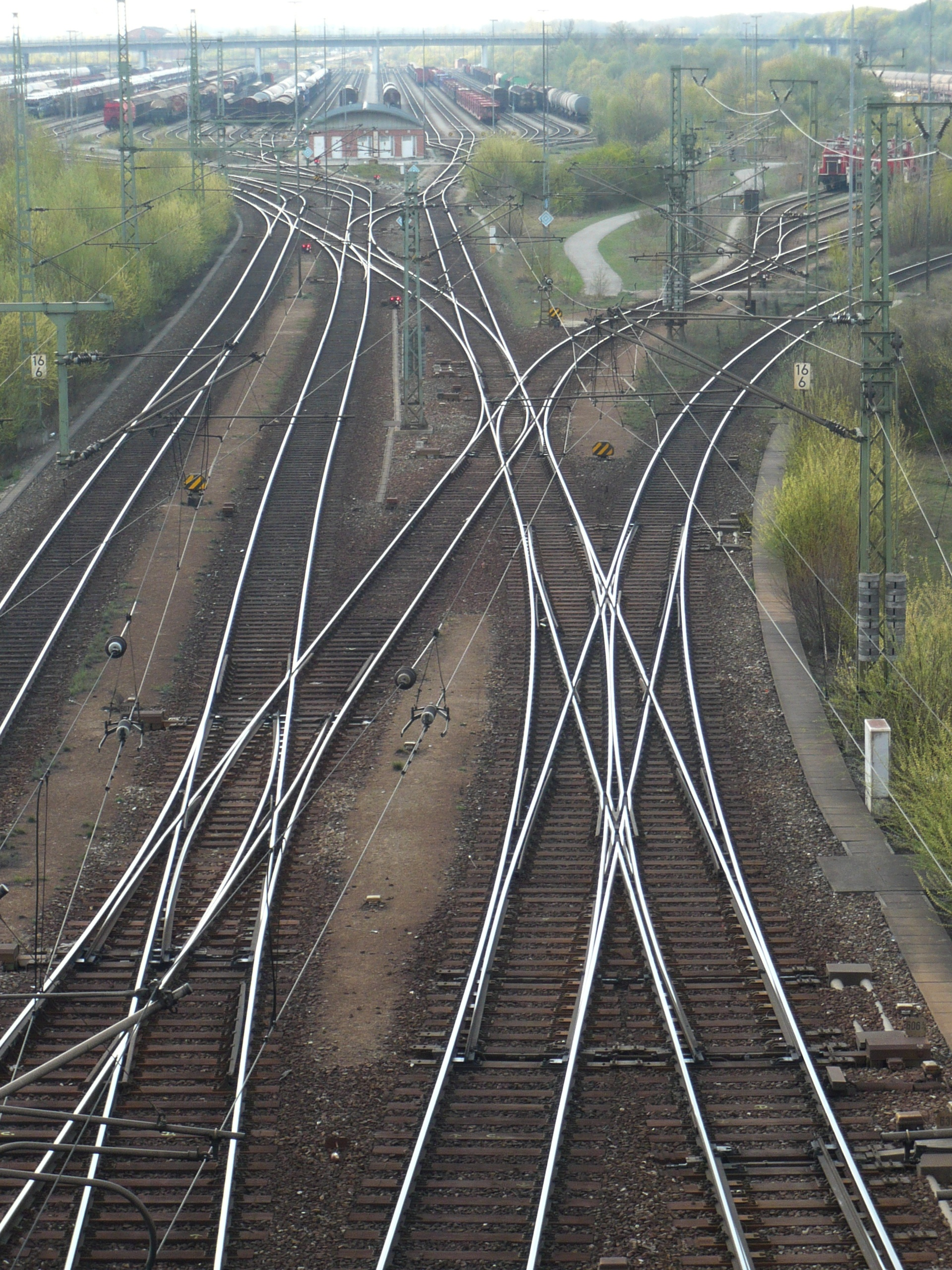 double-slip switches in marshalling yard Munich North